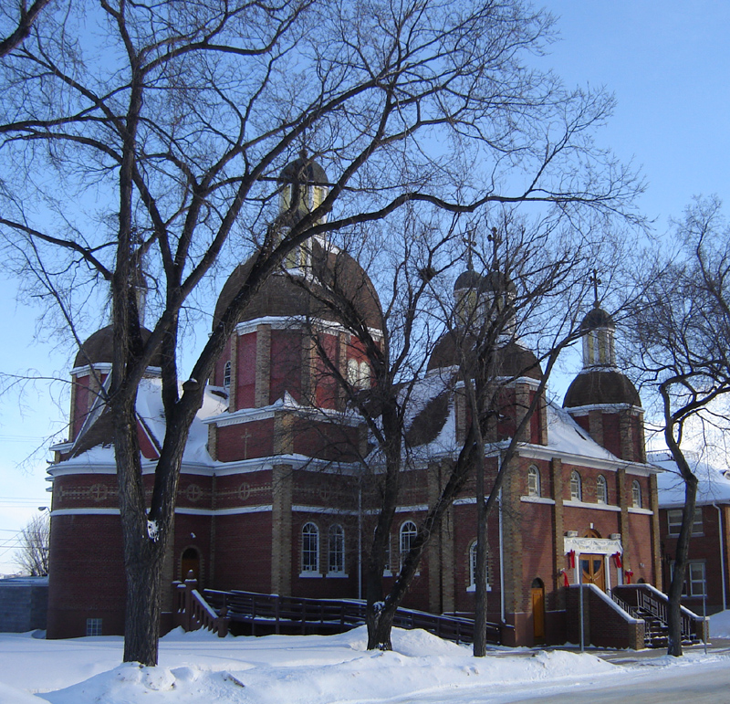 Saskatoon Heritage Society Protected Churches St George's Ukrainian Greek Catholic Church Pleasant Hill, Core Neighbourhoods Suburban Development Area, Saskatoon, Saskatchewan, Canada